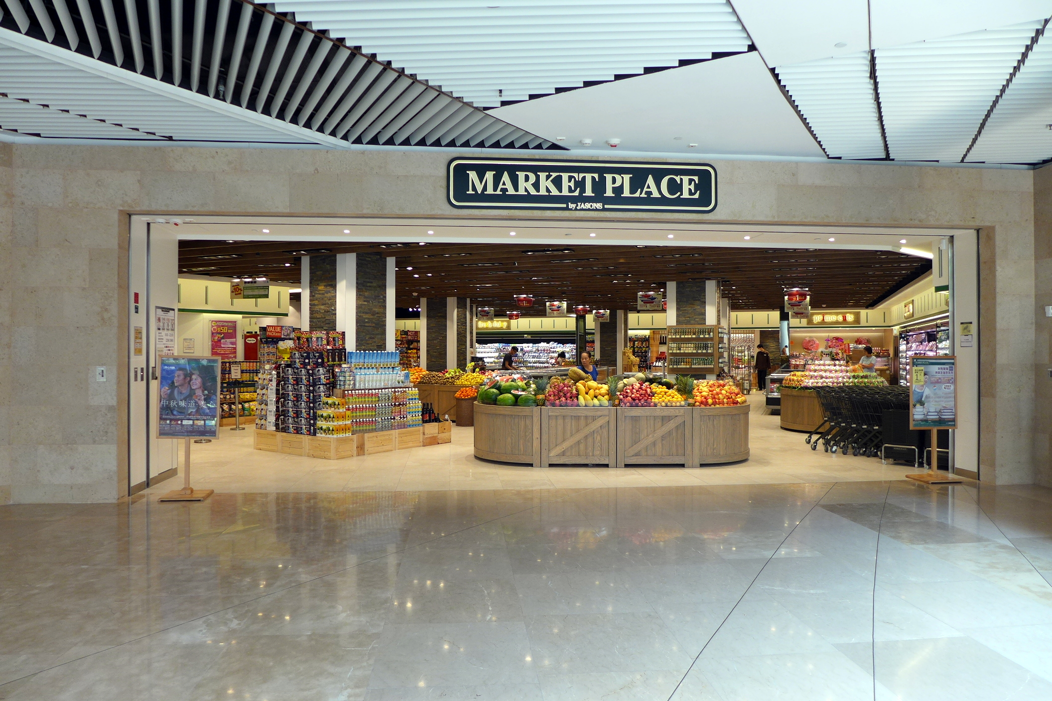 Market Place by Jasons in Double Cove Place